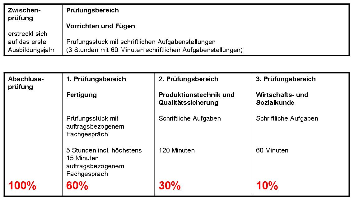 Overview and weighting of the test areas in the dual vocational training "Fachkraft für Lederverarbeitung"